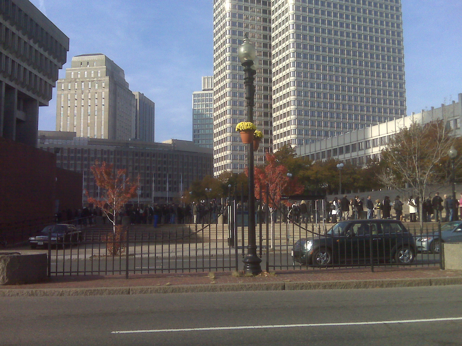 City Hall Plaza, Boston, Massachusetts